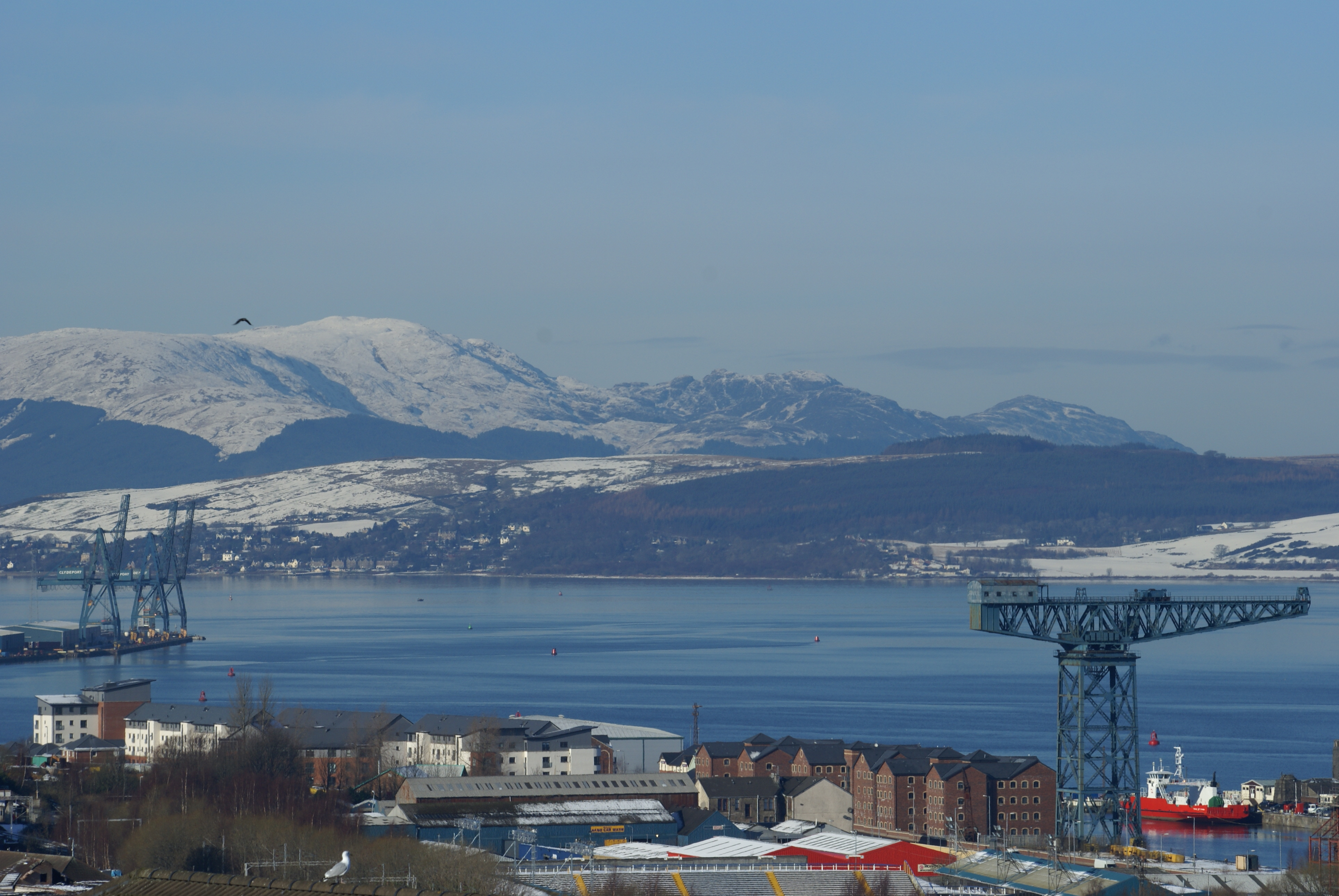 Seasonal view north west over Greenock